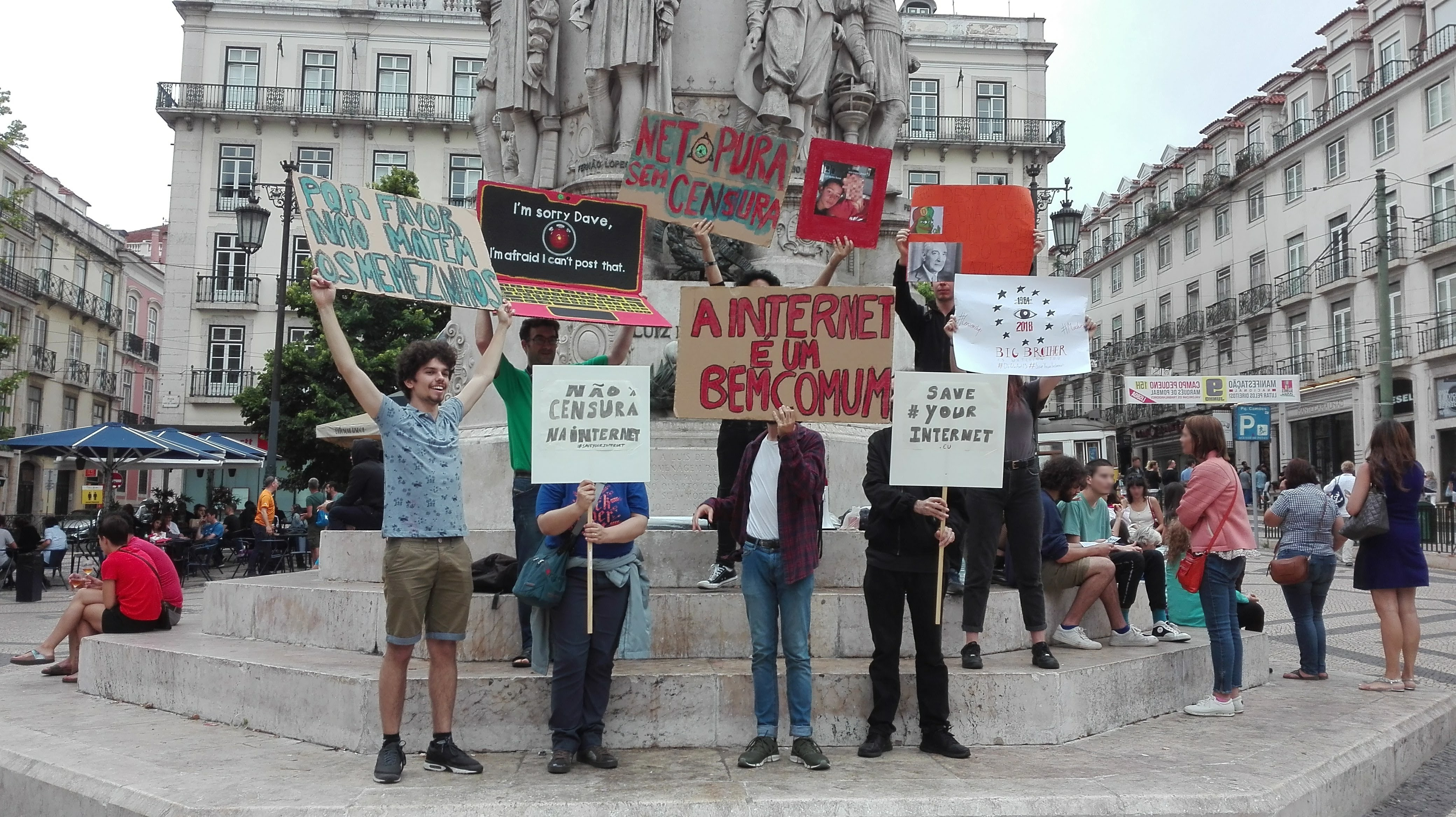 protests against the EU copyright reform, specially articles 11 and 13, in Lisbon, July 2018.